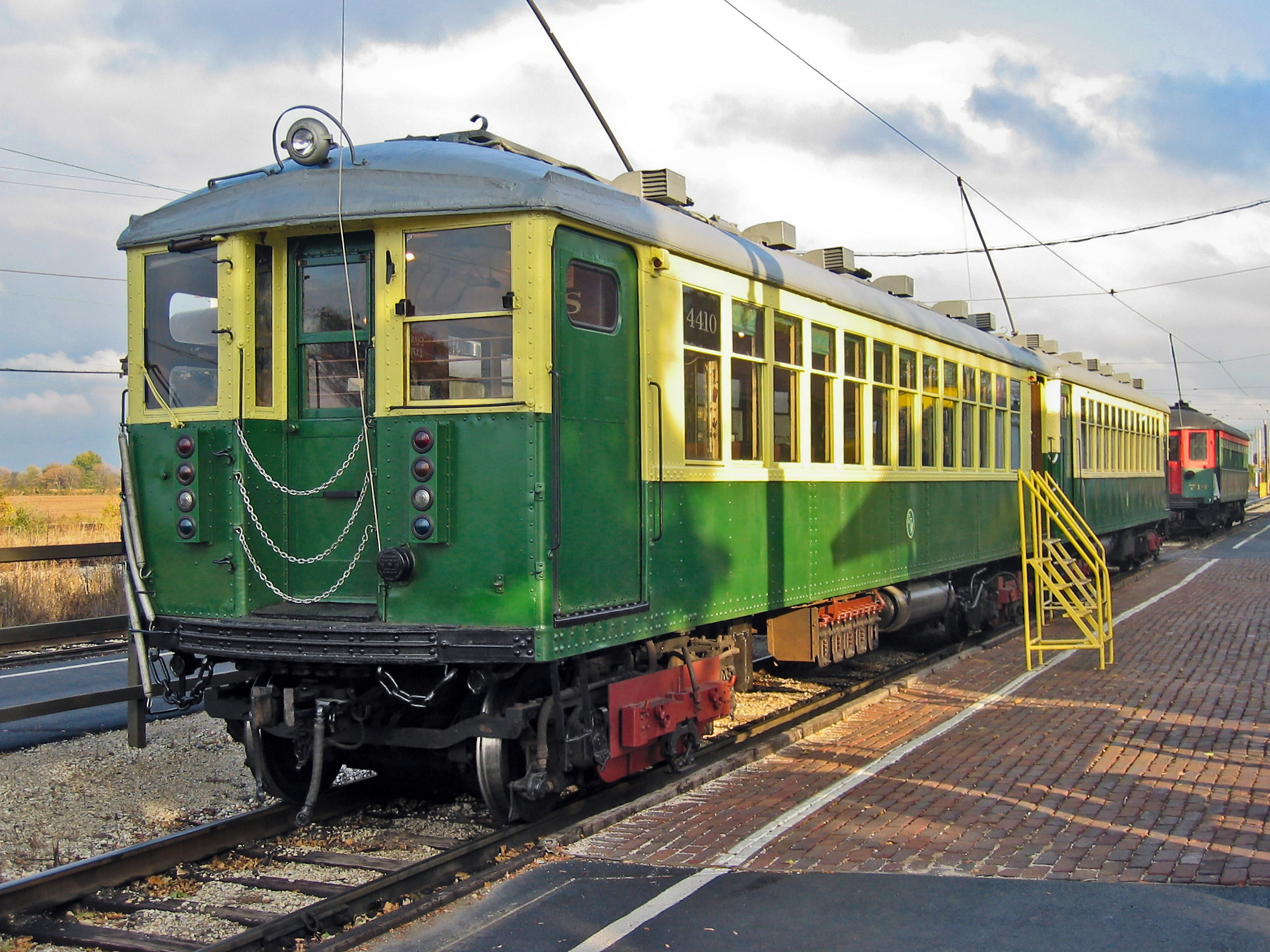 1922 vintage Chicago Rapid Transit Company motorcar 4410 with multiple-unit train control